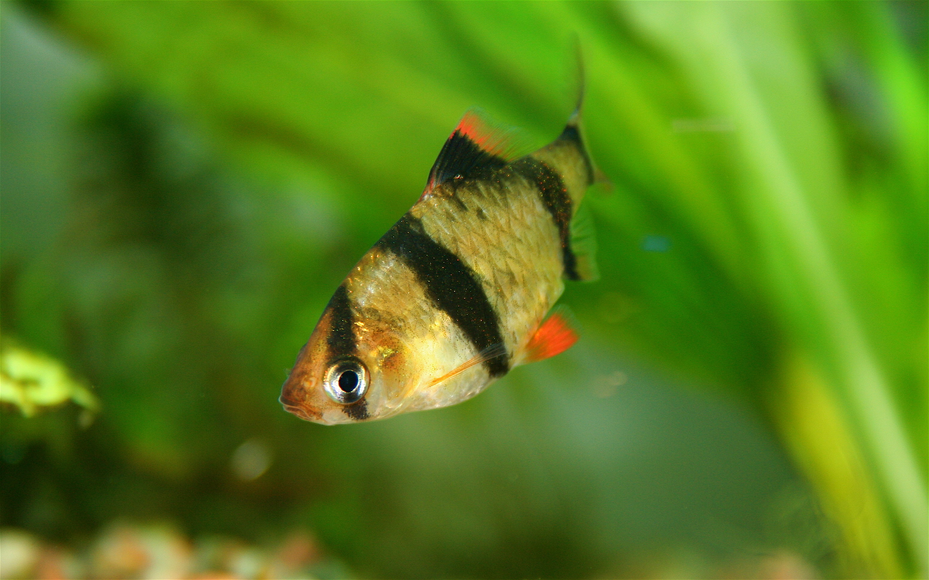 A young tiger barb, Puntius tetrazona